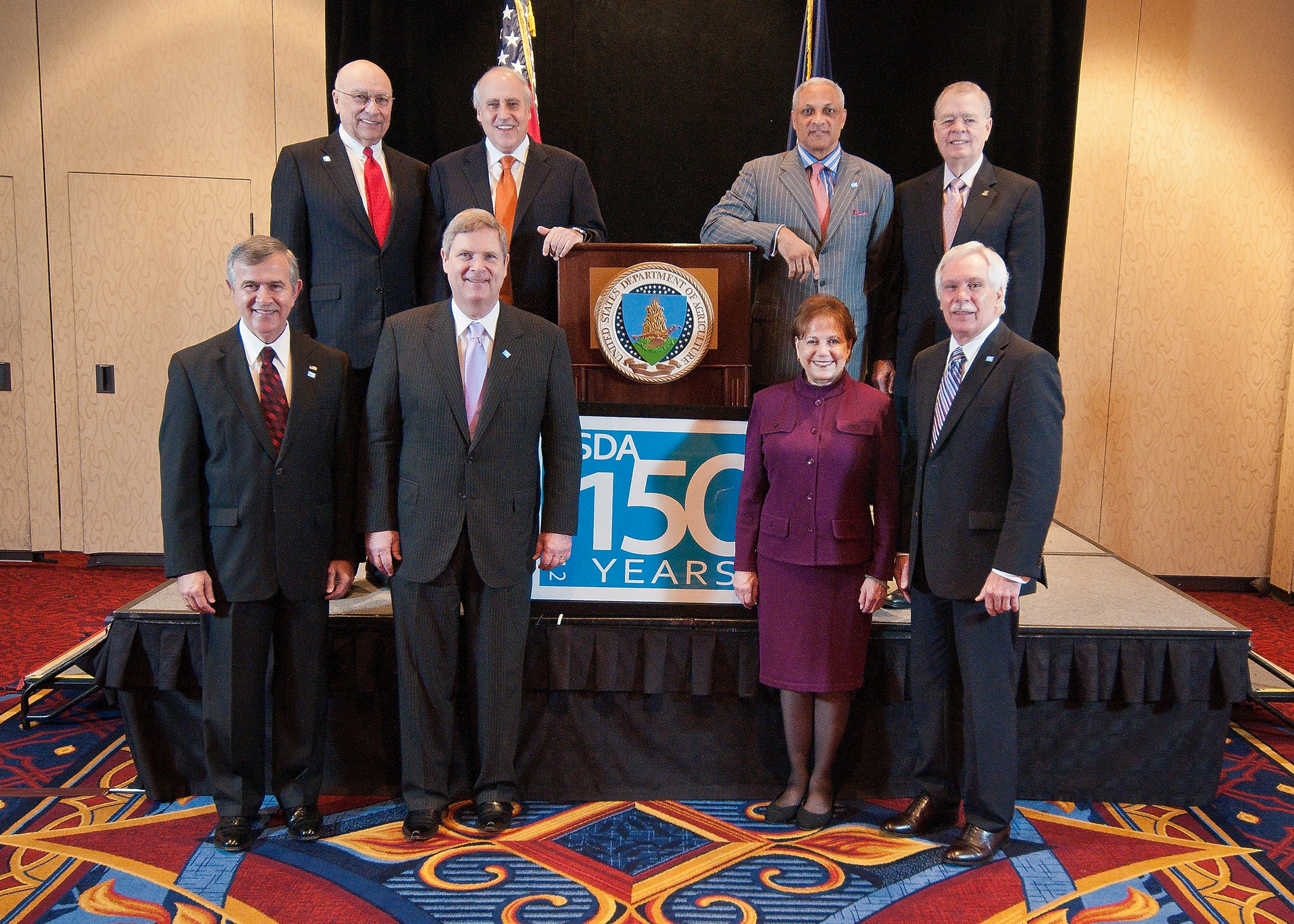 At the 2012 Agricultural Outlook Forum, “Moving Agriculture Forward” in Arlington, VA, held on Thursday, February 23, 2012, 7 former Secretaries of Agriculture sat on the plenary panel “Visions of the Future” hosted by current Agriculture Secretary Tom Vilsack. All the Secretaries posed in front of the U. S. Department of Agriculture’s 150th Anniversary logo. Standing on the podium are (L to R) Clayton Yeutter, Congressman Dan Glickman (KS), Congressman Mike Espy (MS), and John Block. Standing in front of the podium (L to R) Senator Mike Johanns (NE) Agriculture Secretary Tom Vilsack, Ann Veneman, and Governor Ed Schafer (ND). USDA photo by Robert Nichols.